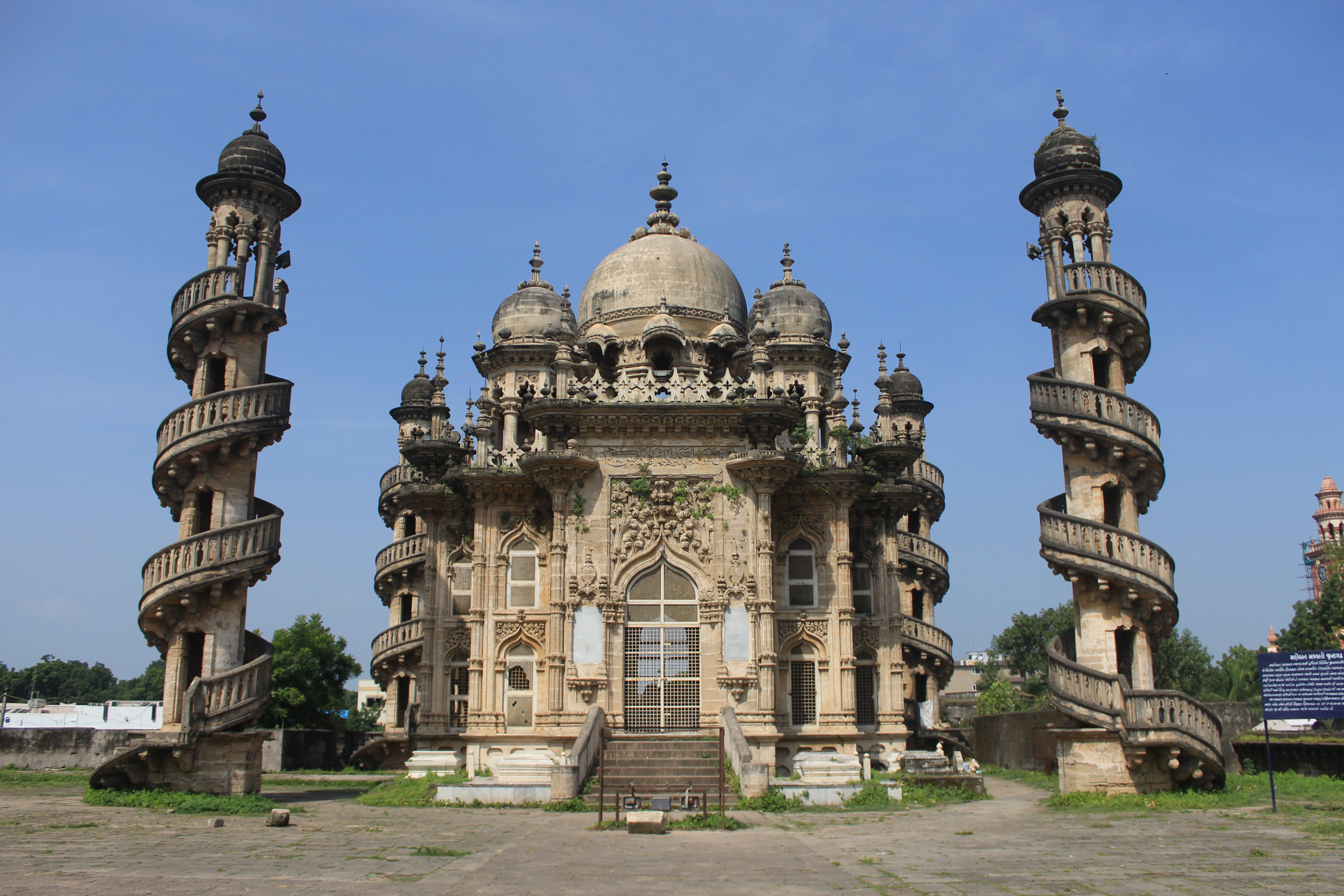 An otherworldly mausoleum in the heart of Junagadh